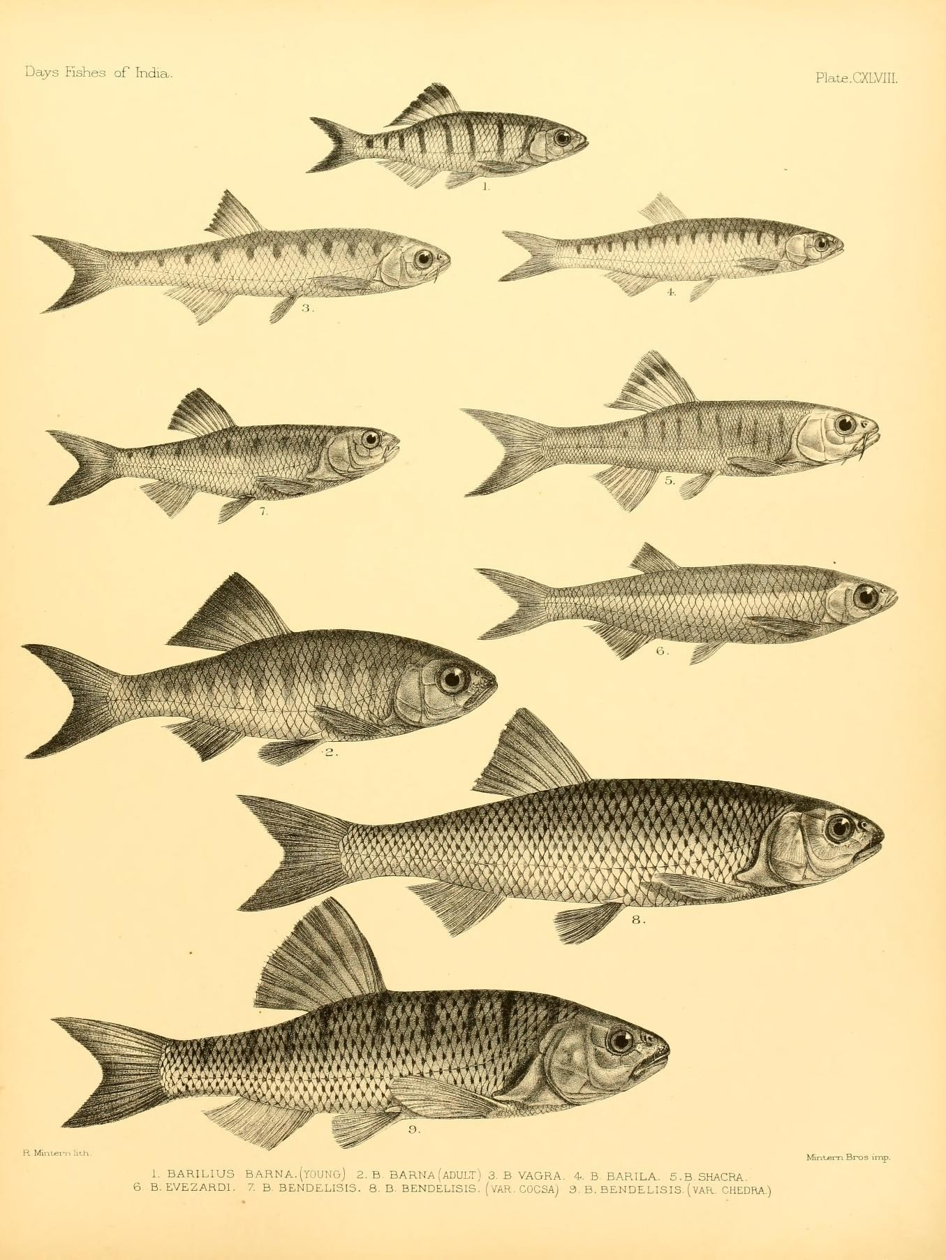 Days Fishes of India. Plate.CXLVlII. R Minl.ei'n lith Mint«r-n Bros imp. 1. BARILIUS BARNA.(yOUNGJ 2. B BARNA ( ADULT ) 3. B VAGRA. 4. B BARILA. 5.BSHACRA, 6 B.EVEZARDl. 7. B, BENDELI3I3. 8. B. BENDELISIS. (VAR. COCSAj 9. B. BENDELISIS- (VAR, CHEDRA-)